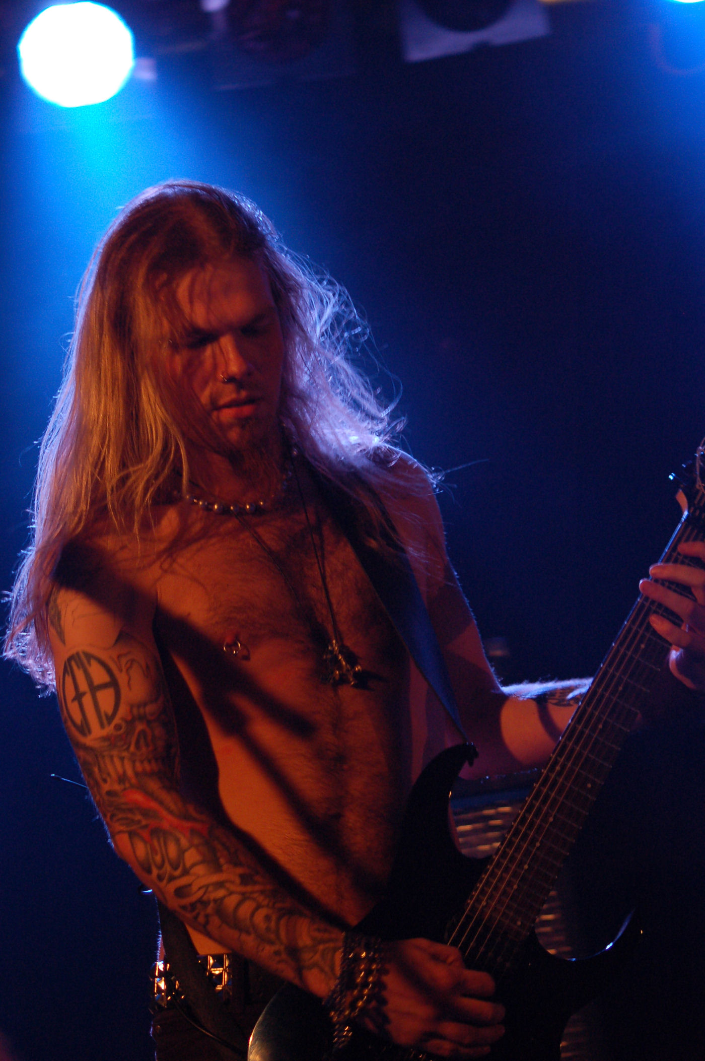 Terji Skibenæs from Týr during Metalmania 2007 festival